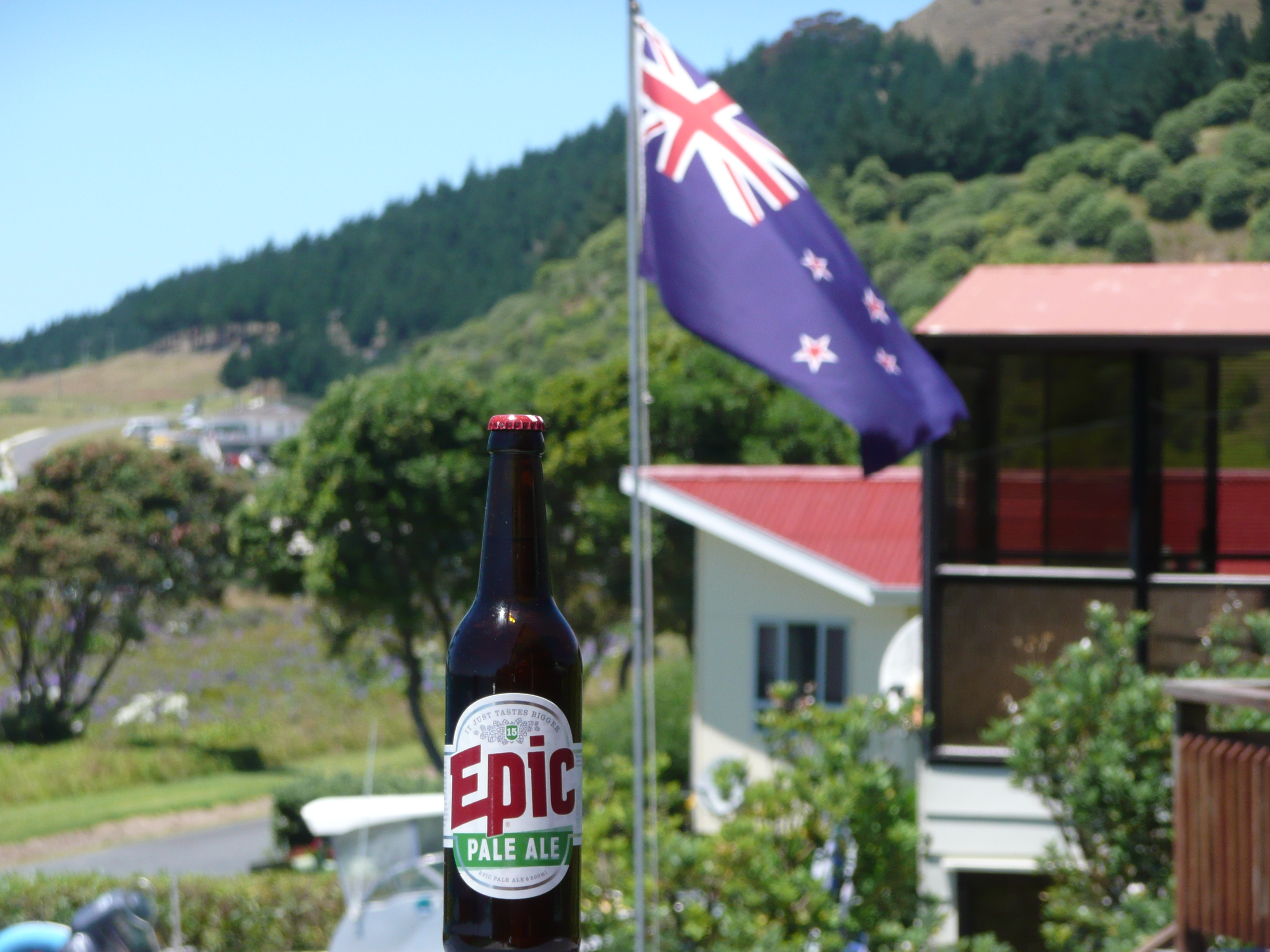 Epic Pale Ale with New Zealand flag